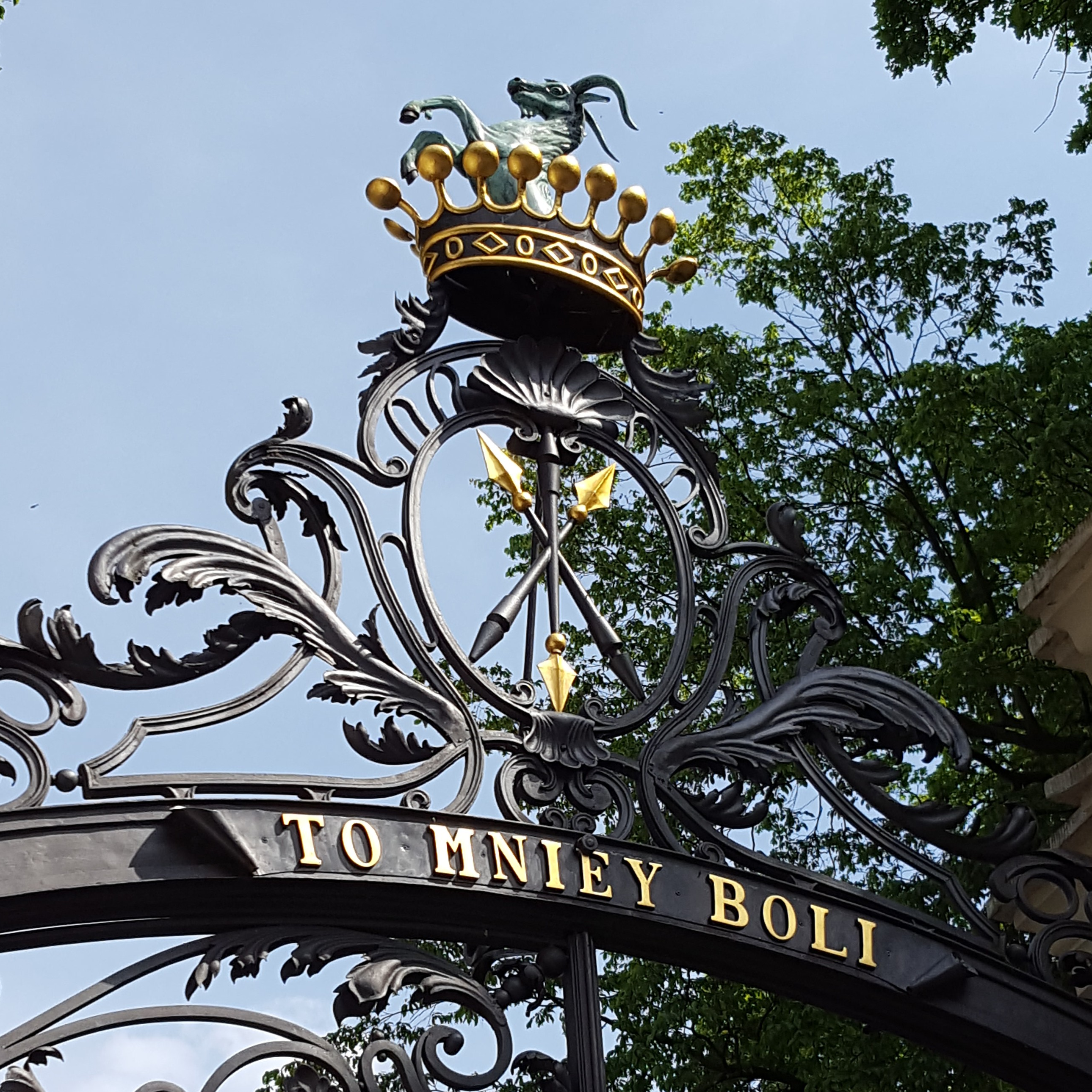 Main Gate at the Zamoyski Museum in Kozłówki, with the heraldic motto "To mniey boli" (It pains less)